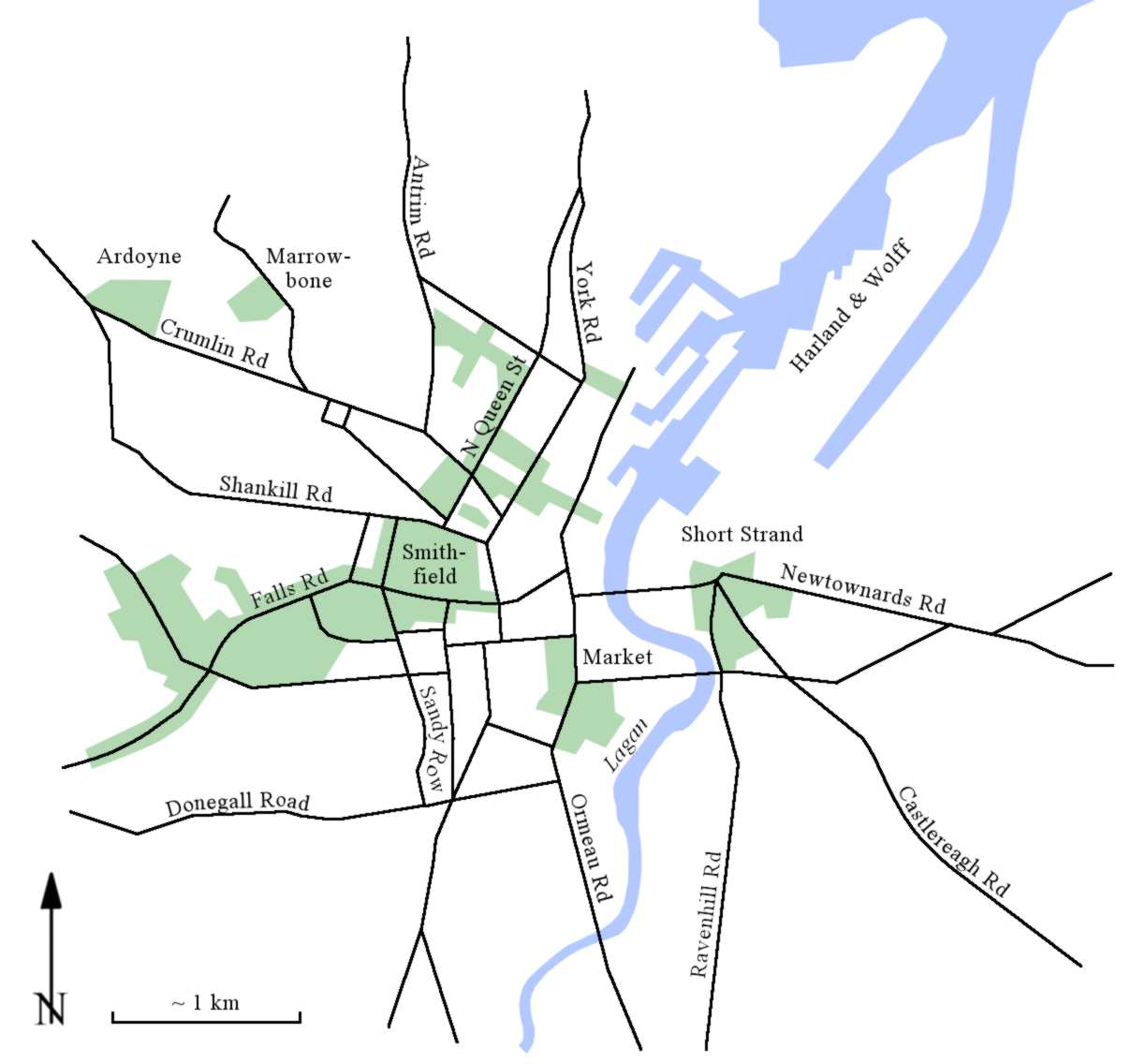 Main Catholic Districts, Belfast 1911